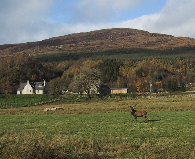 Stag at Tulloch Farm. Looking across the fields of Tulloch Farm, with Creag Dhubh in the background and a local stag.